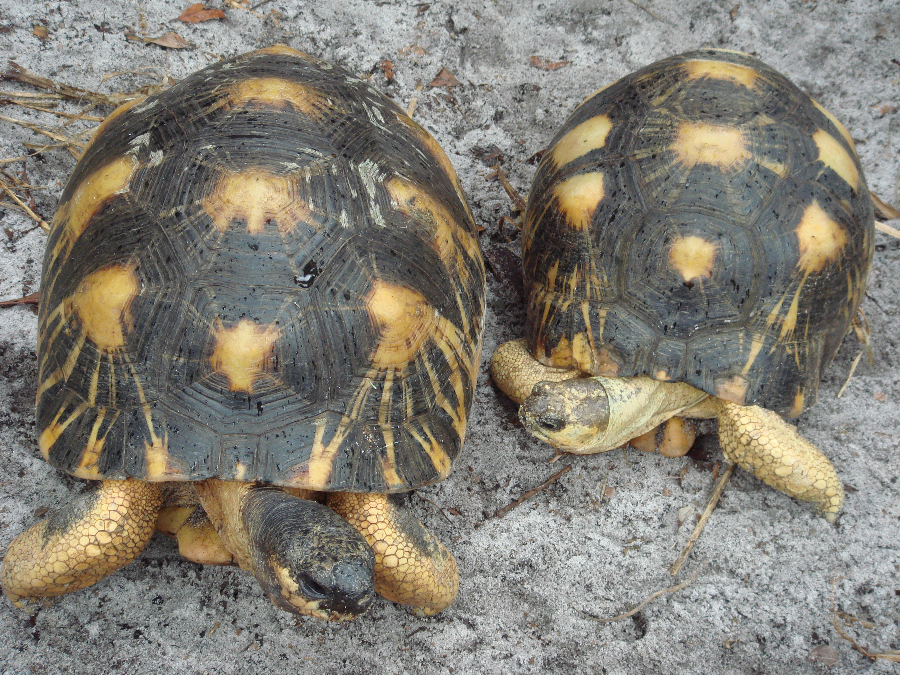 Radiated tortoise. Male and female.